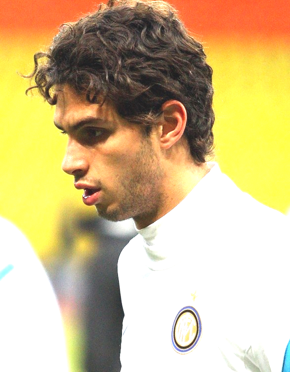 Andrea Ranocchia with FC Internazionale Milano shirt